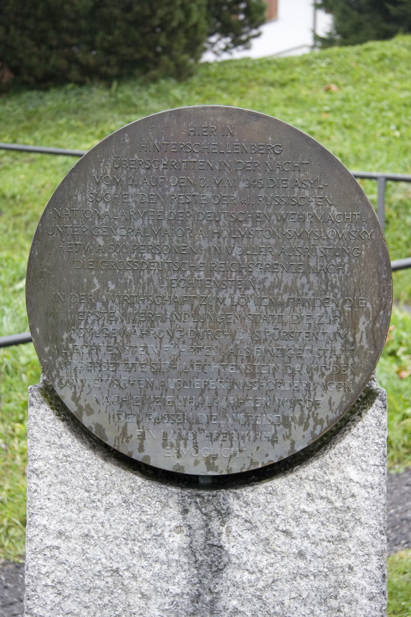 The Russian Monument Liechtenstein is a small memorial stone in the hamlet of Hinterschellenberg, near Liechtenstein's border with Austria.